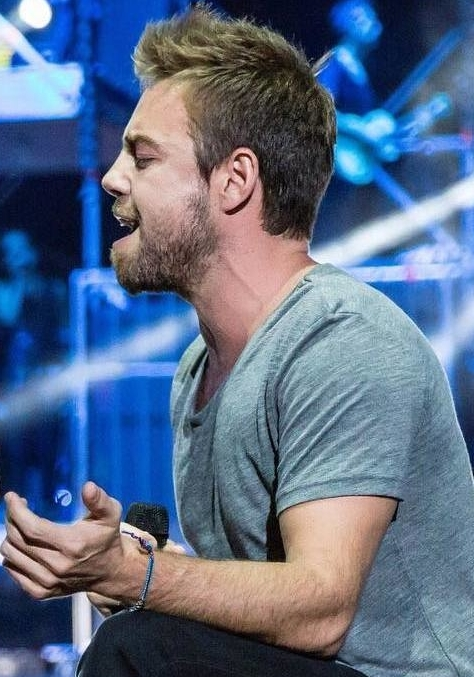 Murat Dalkılıç performing "Görev" at Harbiye during Hande Yener's concert on August 9, 2016.